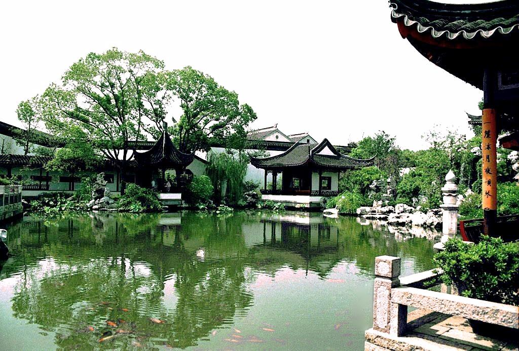 Tuisi Garden (Retreat & Reflection Garden) 江苏吴江同里退思园 — Suzhou.